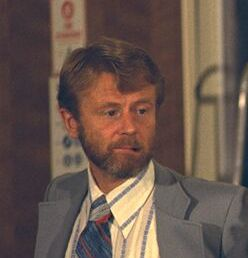 Dr Tom Gehrels (left) during press conference for Pioneer 11 Jupiter encounter ID: AC74-9036-28 Credit: NASA Ames Research Center (NASA-ARC)